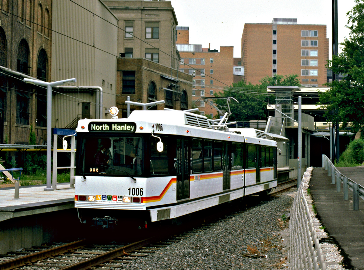 A St. Louis MetroLink car at the Central West End station. Car 1006 is a 1992 Siemens SD-400 light rail vehicle and was one of the first cars delivered for use on this 1993-opened light rail system.